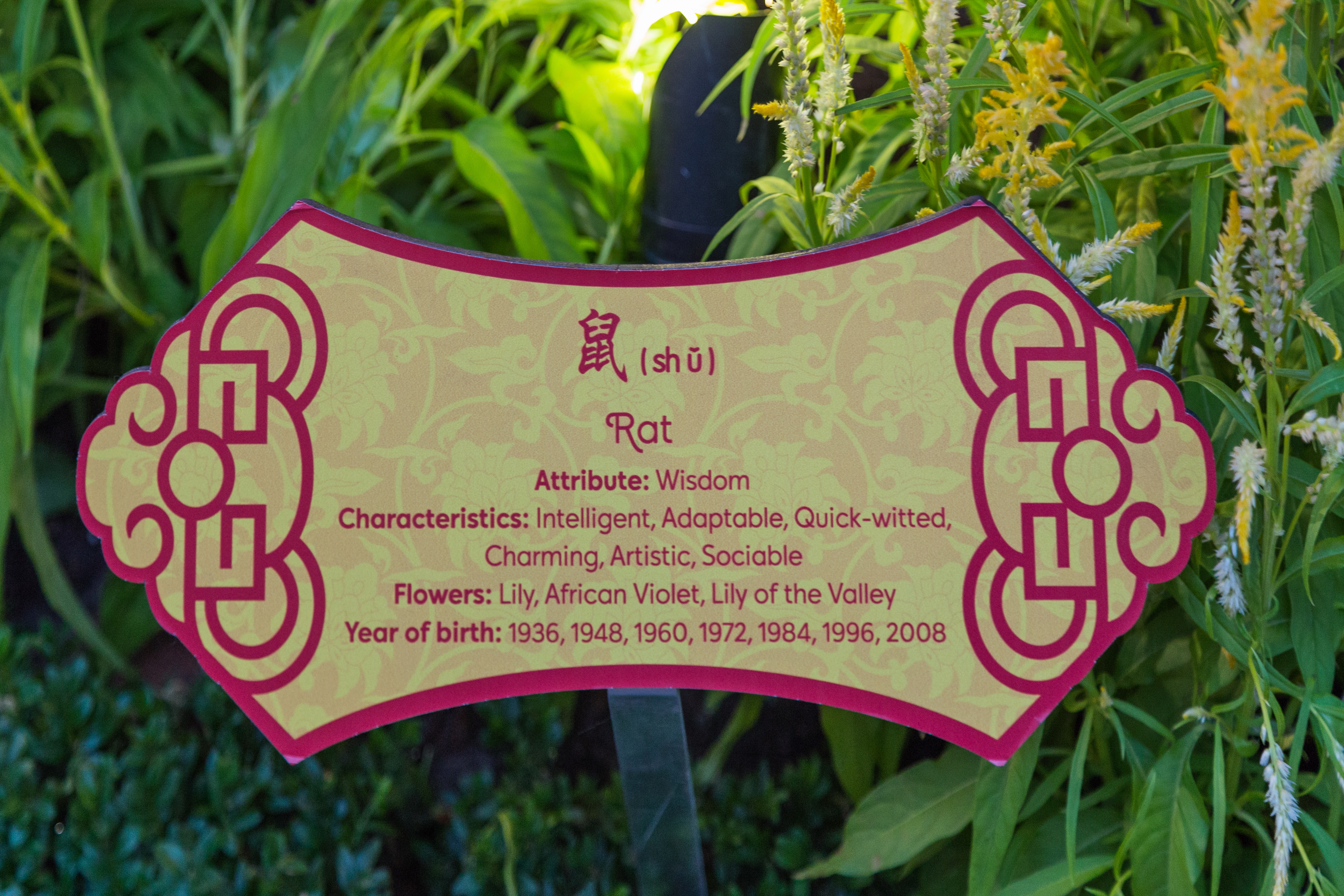 Rat - Chinese zodiac sign. Inside Flower Dome, Bay South Garden, Gardens by the Bay. Central Region, Singapore.